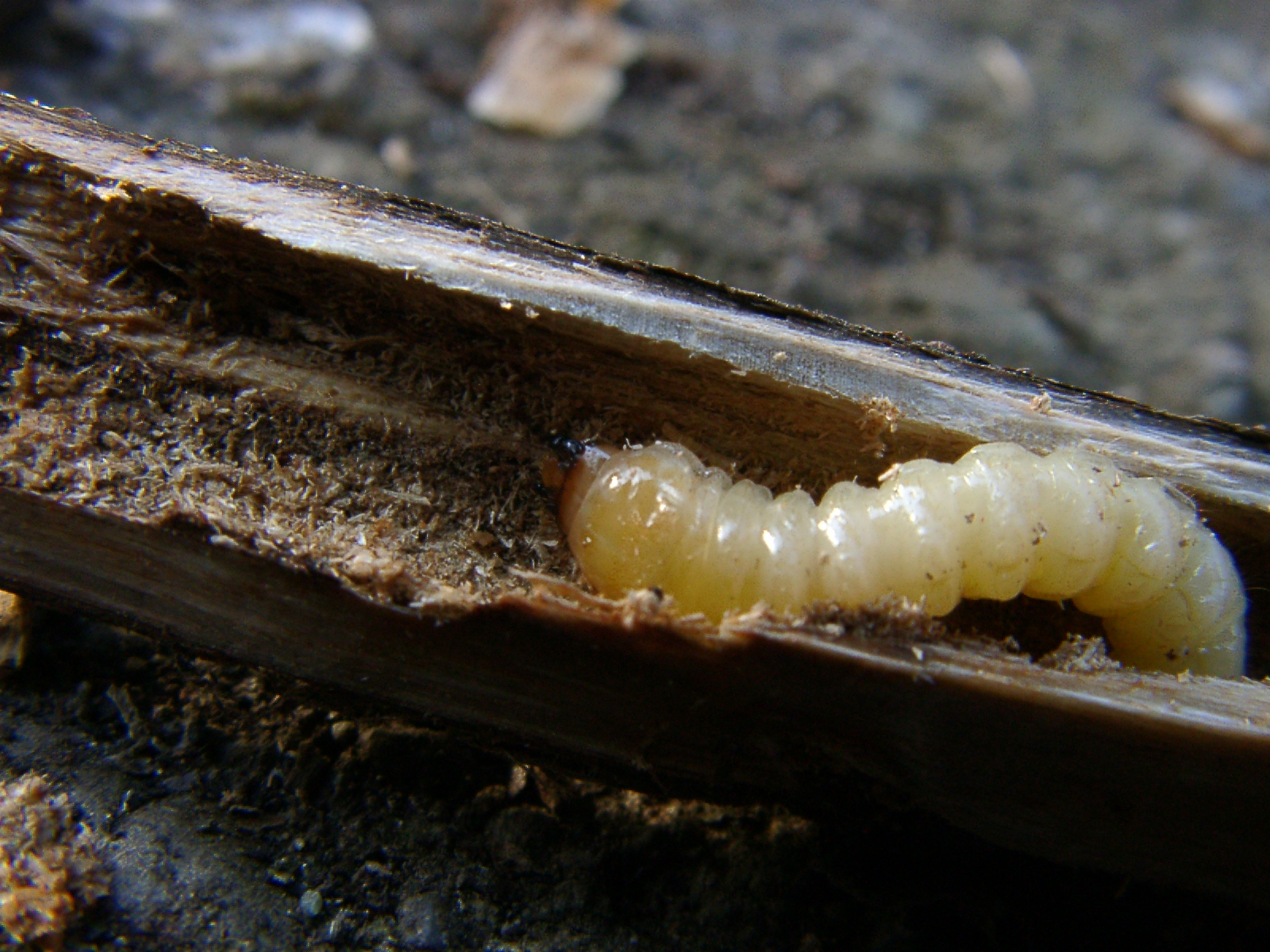 Paraglenea fortunei larvae in stem of Boehmeria nivea var. nipononivea. Odawara-city Kanagawa.